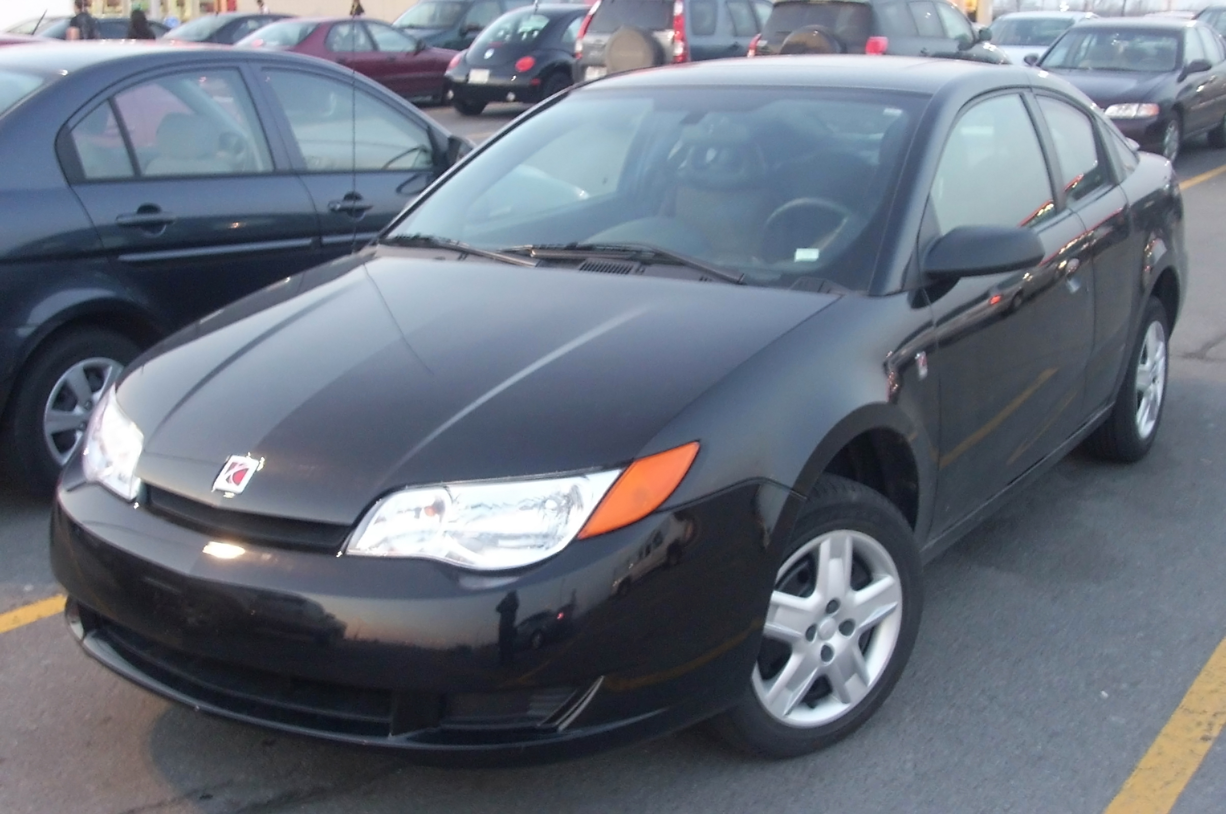 Saturn Ion photographed in Montreal, Quebec, Canada.